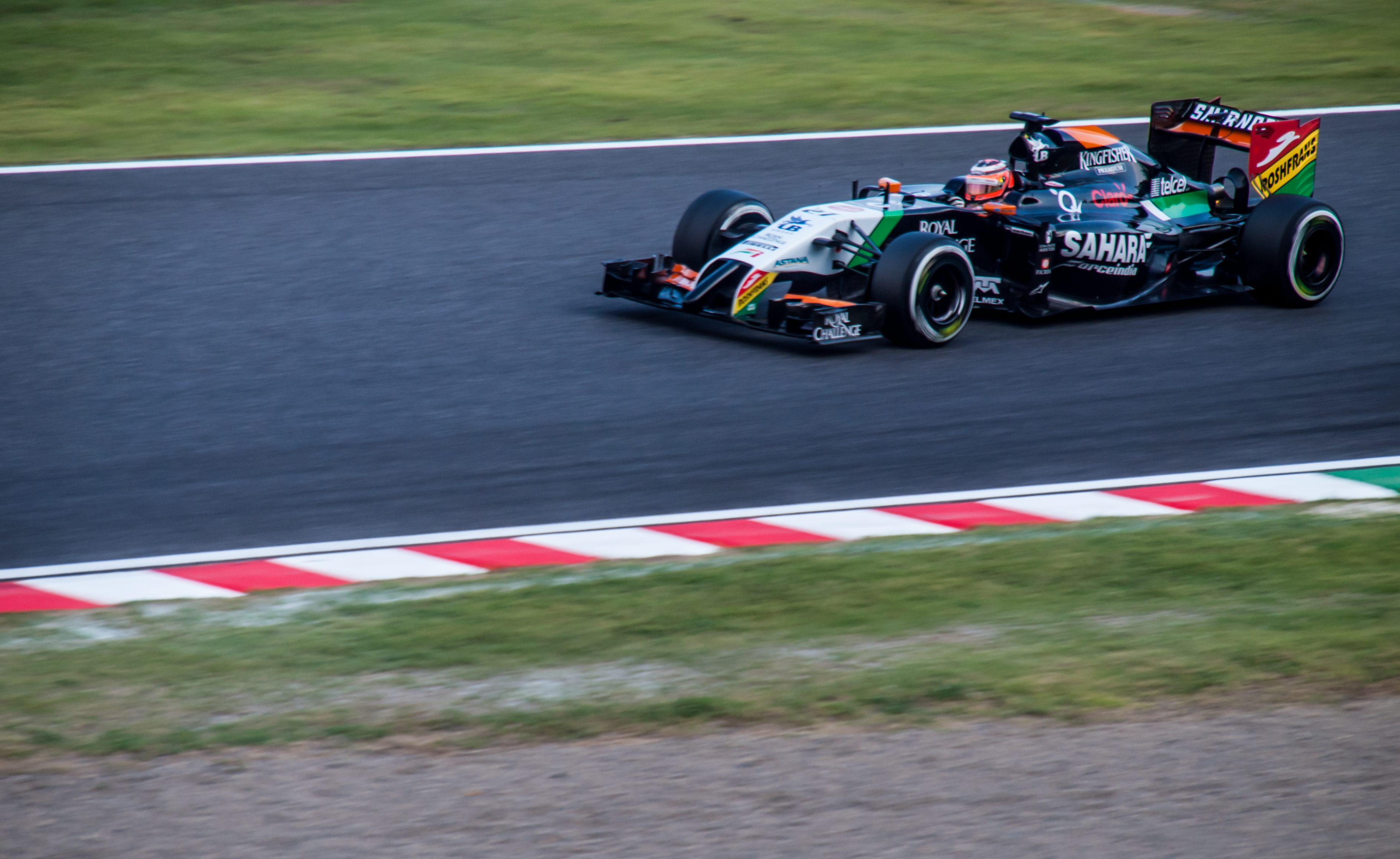 Nico Hülkenberg during free practice for the 2014 Japanese Grand Prix